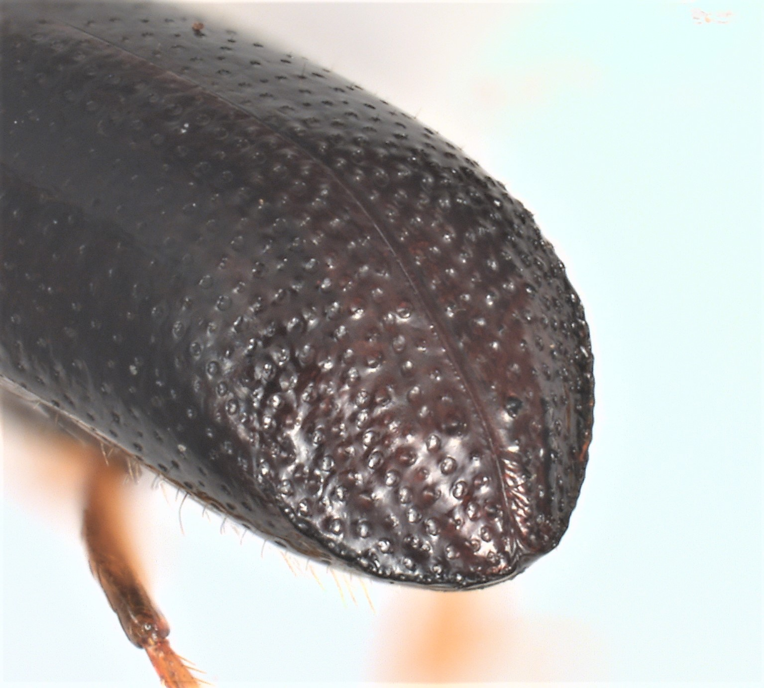 Elytral declivity (back end) of an adult female redbay ambrosia beetle (Xyleborus glabratus Eichhoff), collected in Alachua County, Florida, USA.